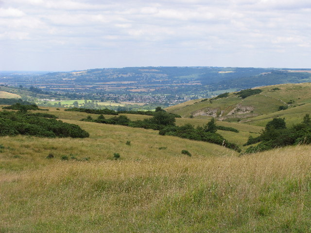 View across Cleeve Common. Cleeve Common is the high ground north and east of the "summits" of Cleeve Hill, falling away towards Winchcombe which can be seen in the distance. The whole area was quarried extensively in the past, and a disused quarry can be seen on the hillside in the middle right of the picture.